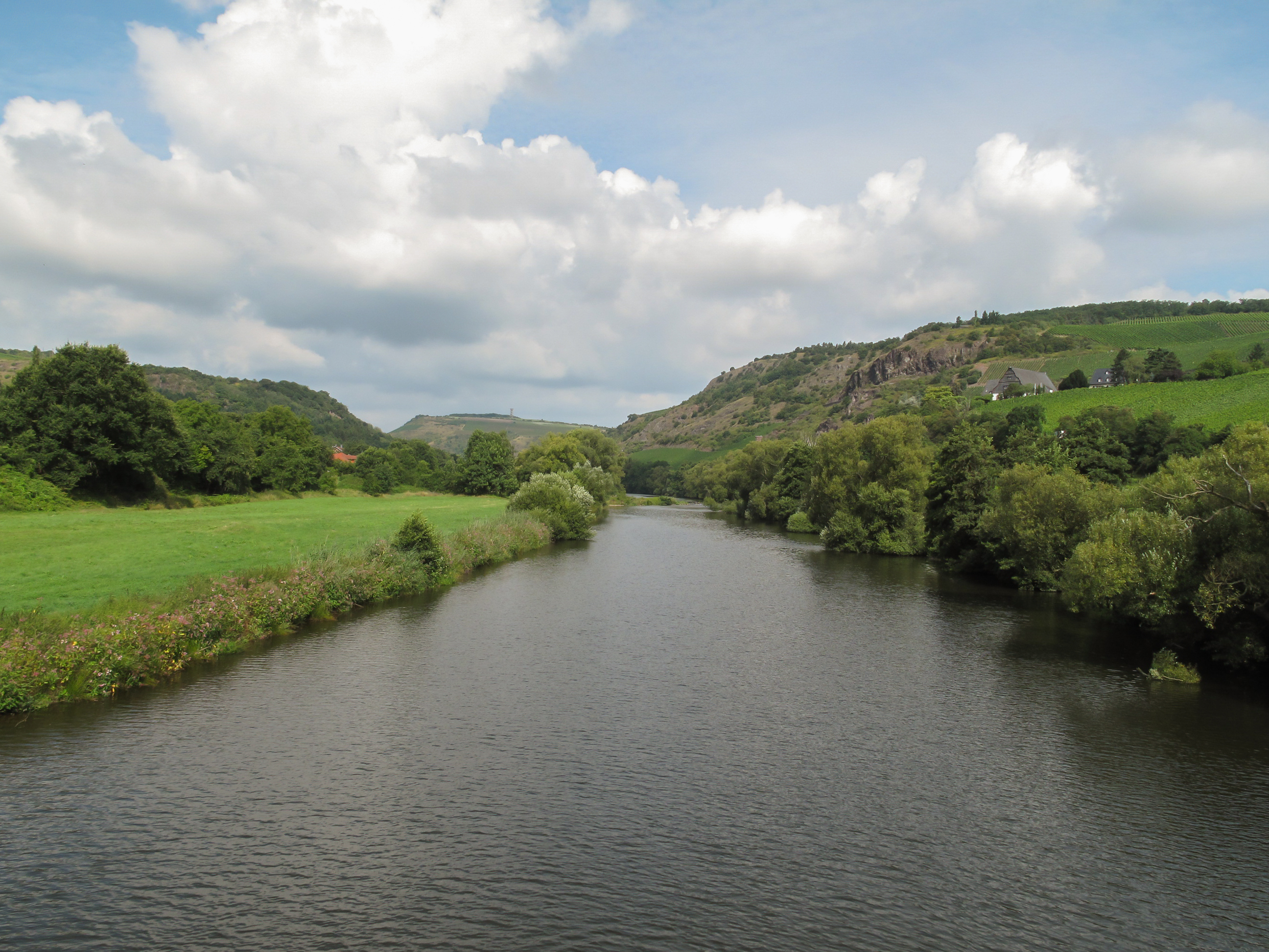 Near Oberhausen an der Nahe, the Nahe